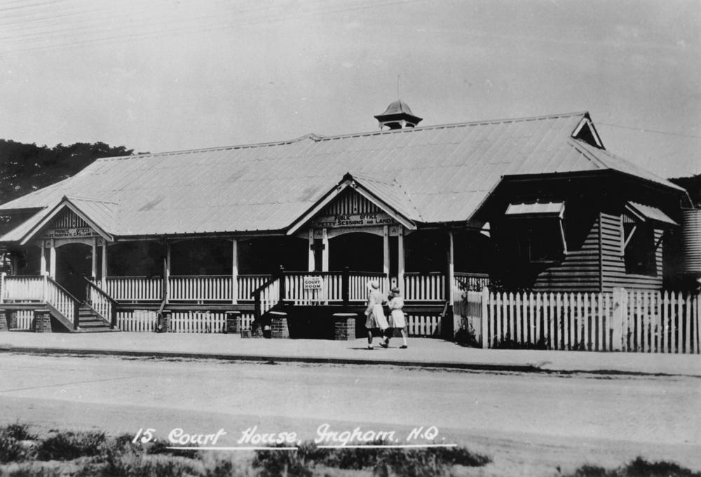 Ingham Court House, Queensland, ca. 1933 Porch-and-gable construction with corrugated iron roofing and sun blinds on the exposed windows. A long verandah faces the street.